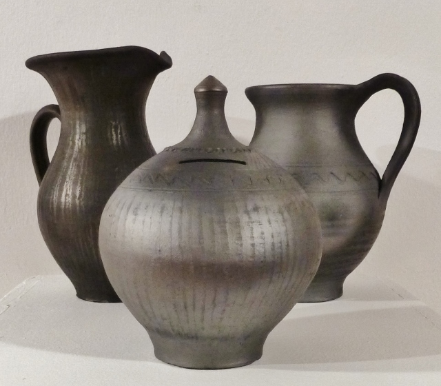 Black pottery of Llamas del Mouro (21st century), copying a traditional model of Spanish Northwest. Cangas de Narcea (Asturias), Spain.